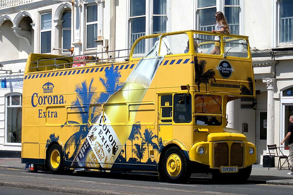 Routemaster coach RCL2250 advertising Corona BeerLager Bus